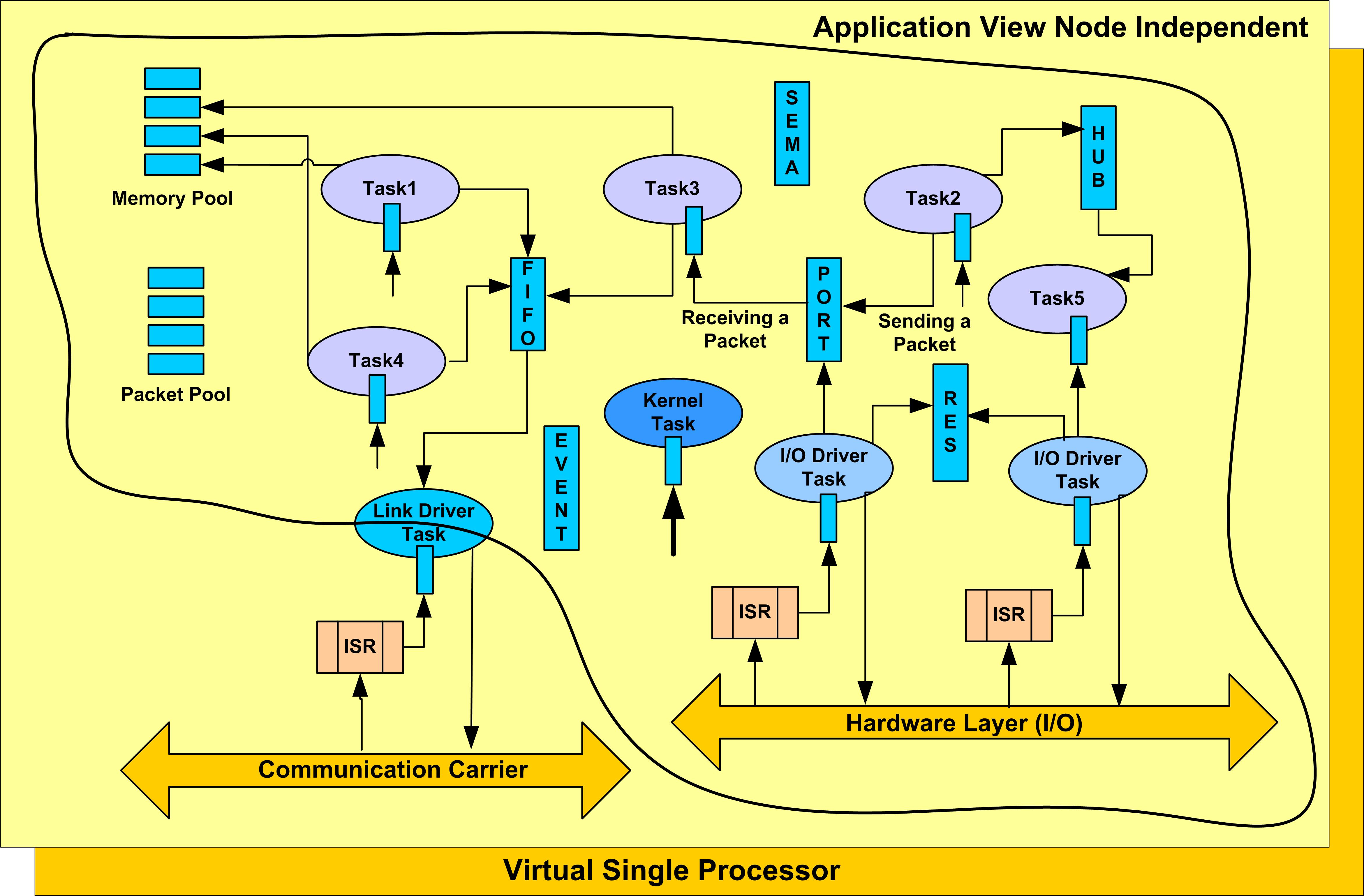 Conceptual diagram illustrating the OpenComRTOS programming model.